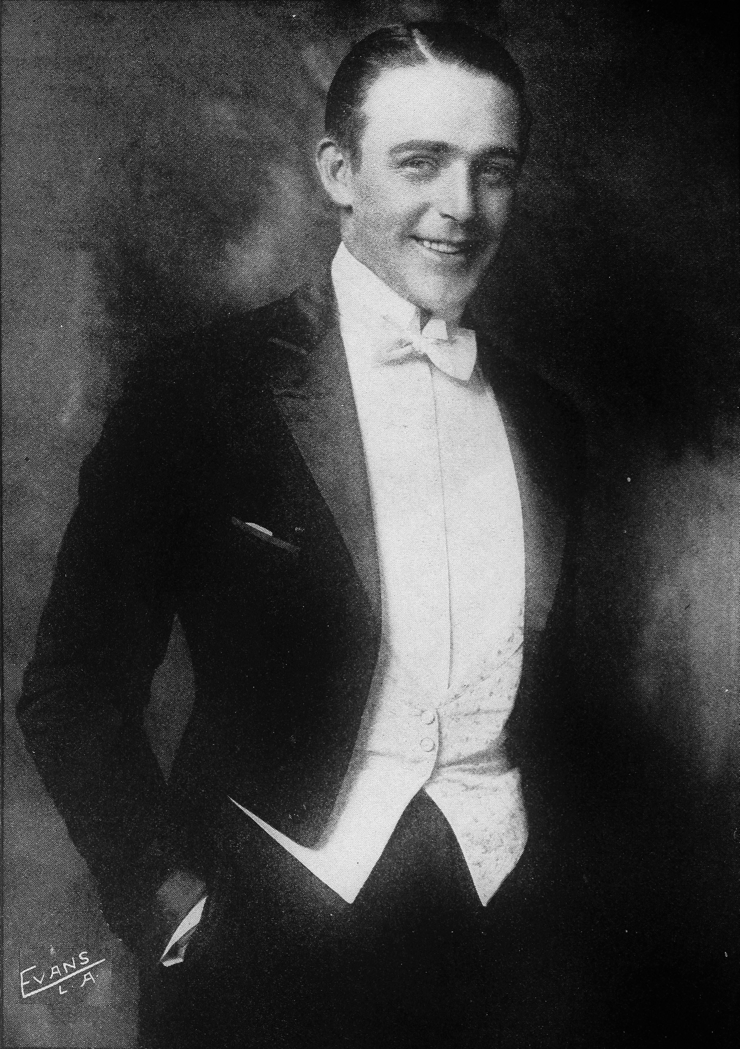 Wallace Reid in Picture-Play Magazine, January 1919. Its original caption reads: "The only reason why they don’t let Wally play in dress-suit rôles all the time is that the causalities among the ladies would soon empty the picture houses. In fact, we feel that we’re toying with the fan hearts even to print this picture. In his next release, 'Some One and Somebody,' he appears with a new leading lady in the person of Ora Carew, a former Keystone favorite."